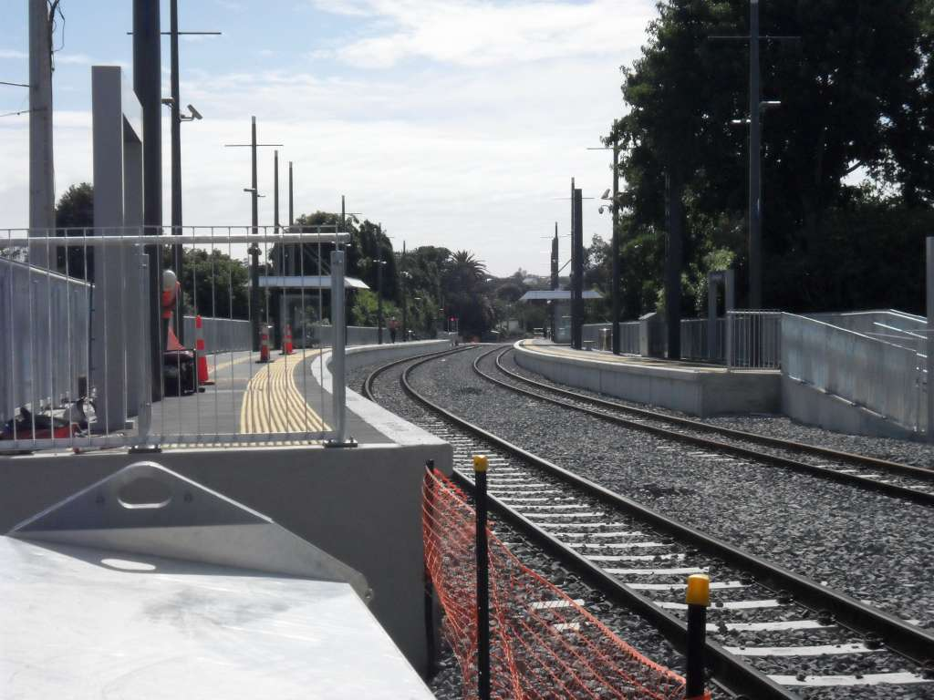 The upgraded Baldwin Ave train station